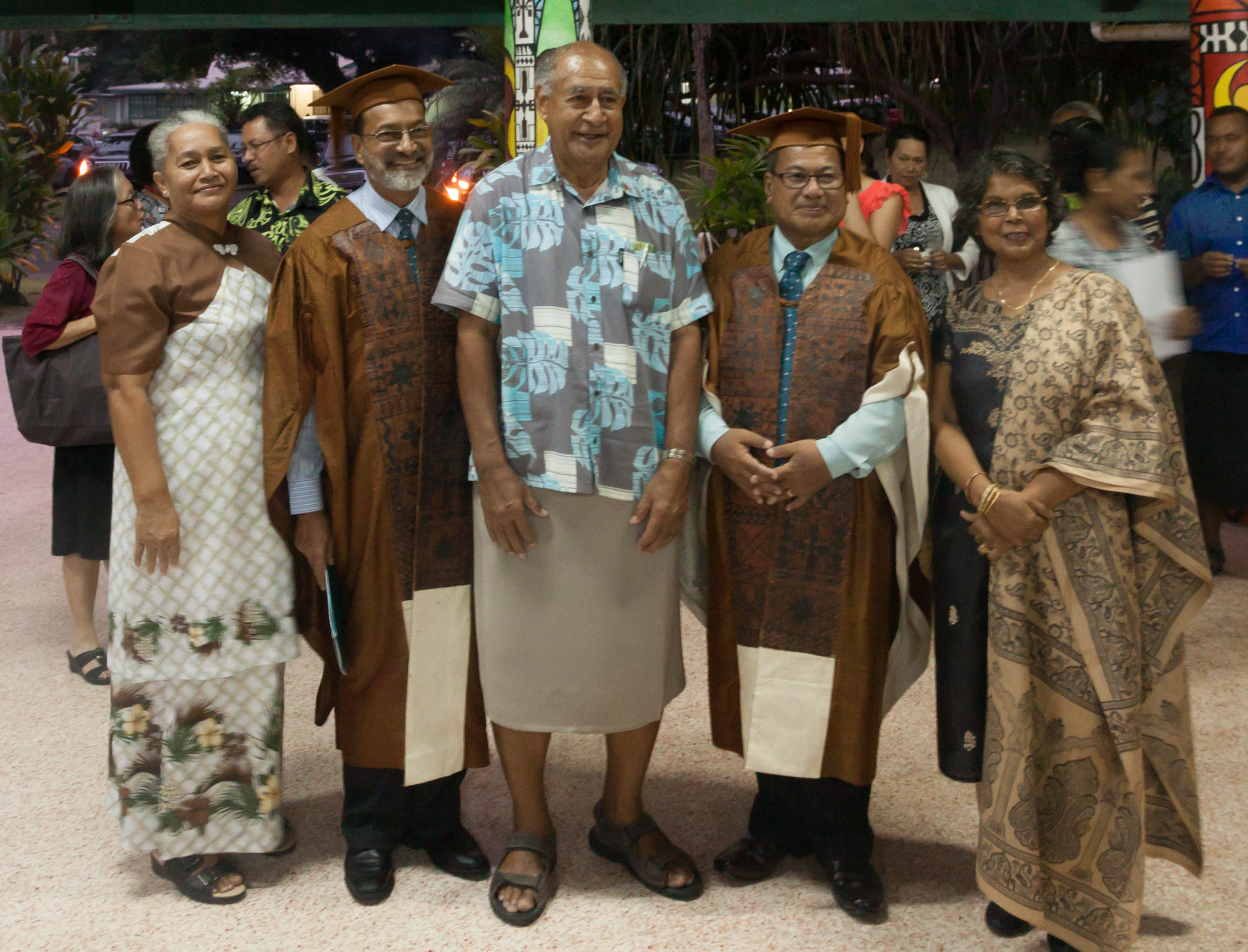 Mr Epeli Nailatikau at the 2015 University of the South Pacific Graduation ceremony.